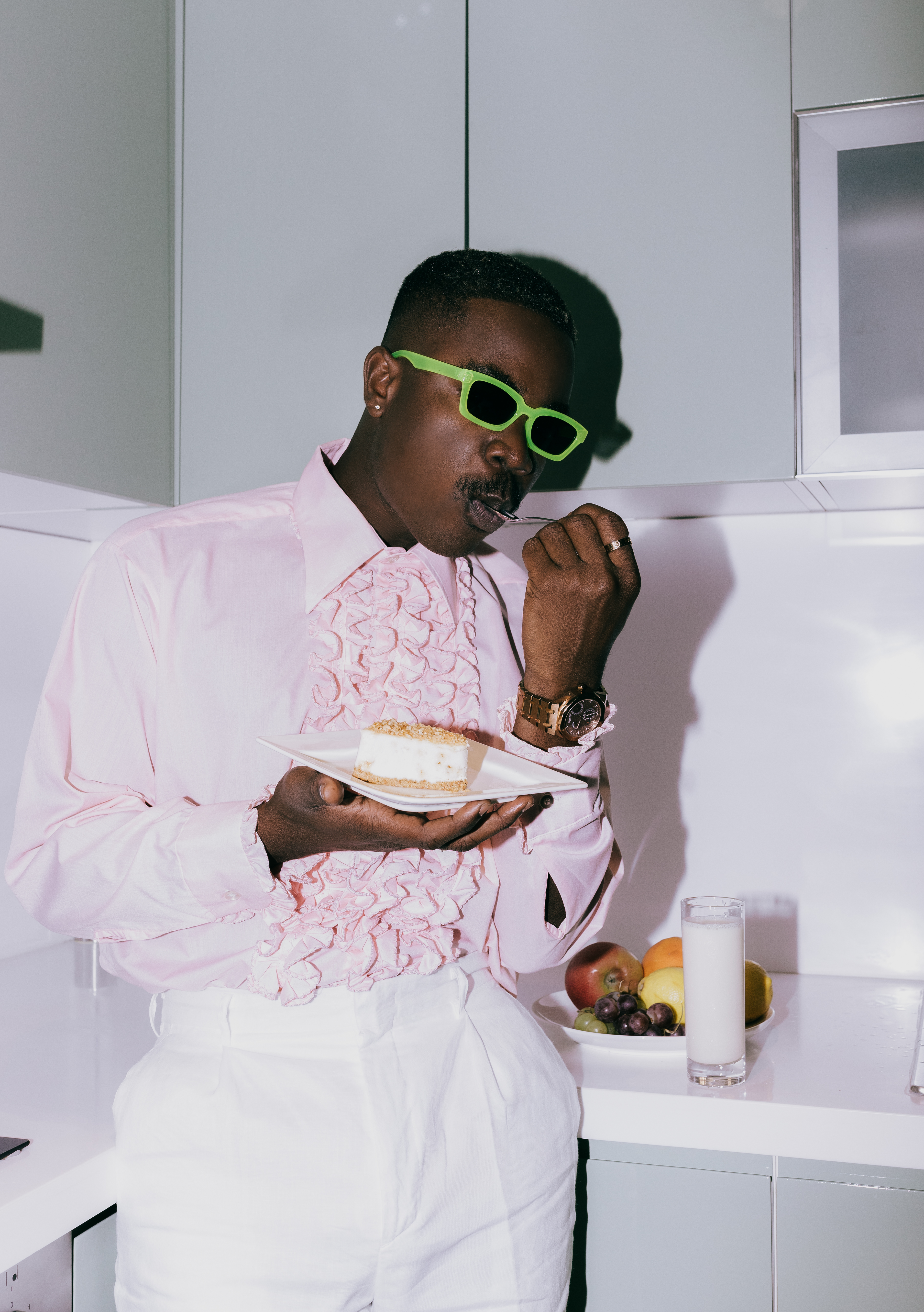 An editorial shoot of Darkovibes for Notion Magazine photographed by Carlos Idun-Tawiah on the topic of the "Year of Return"